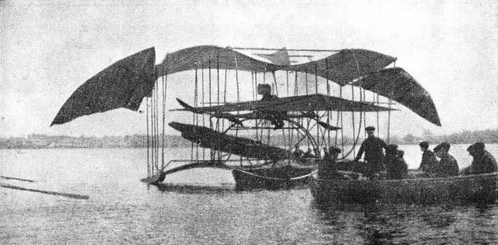 Unsuccessful flying boat known as Humphreys Biplane, Humphreys Waterplane or Wivenhoe Flyer built by a British dentist Jack Edmund Humphreys in 1909